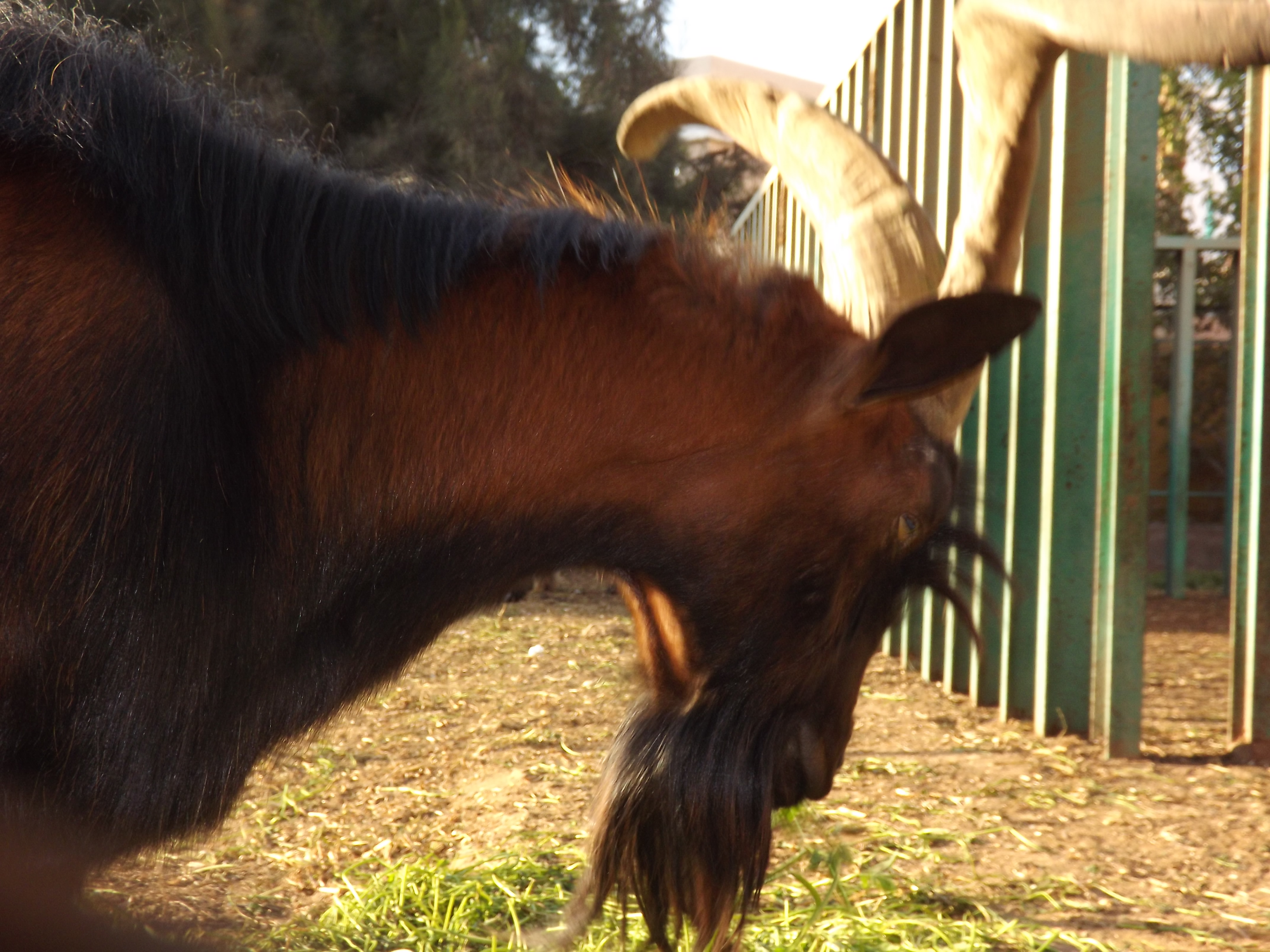 wild goat